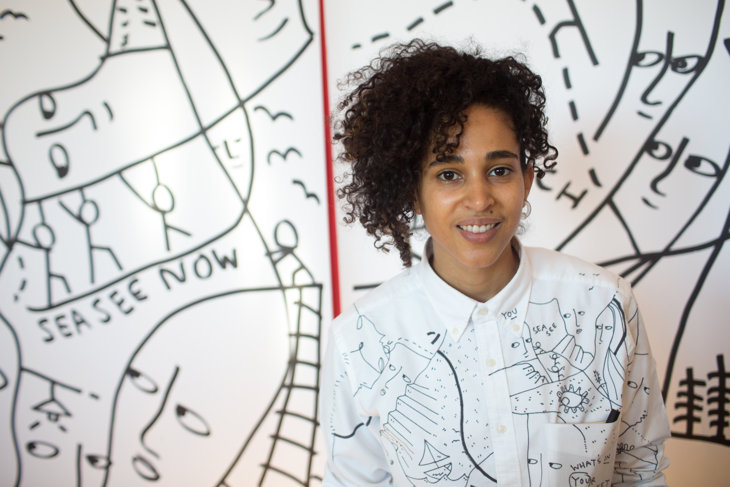 Photo by Thatcher Cook for #PopTech